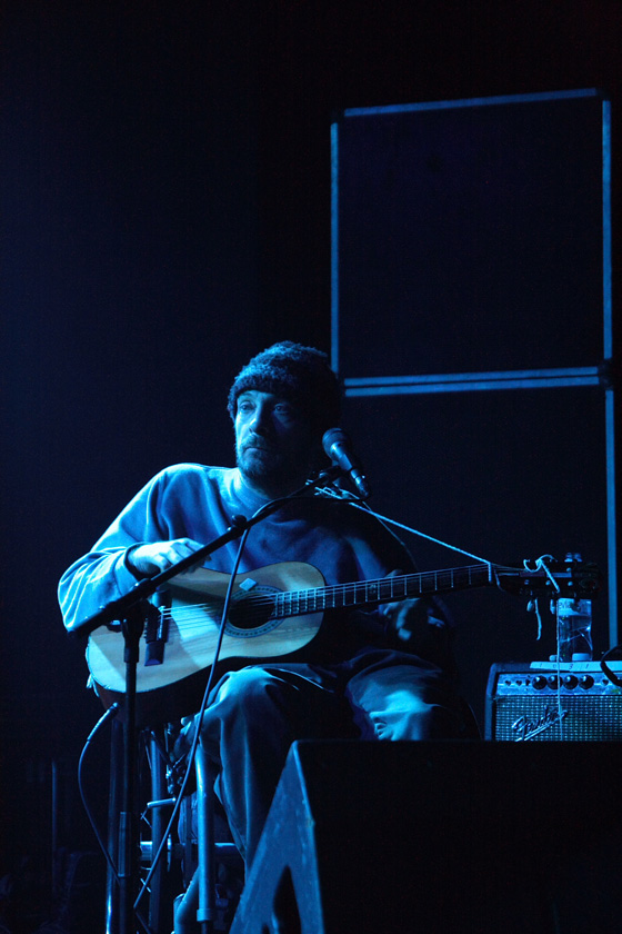 Vic Chesnutt ©vhf/victor felder